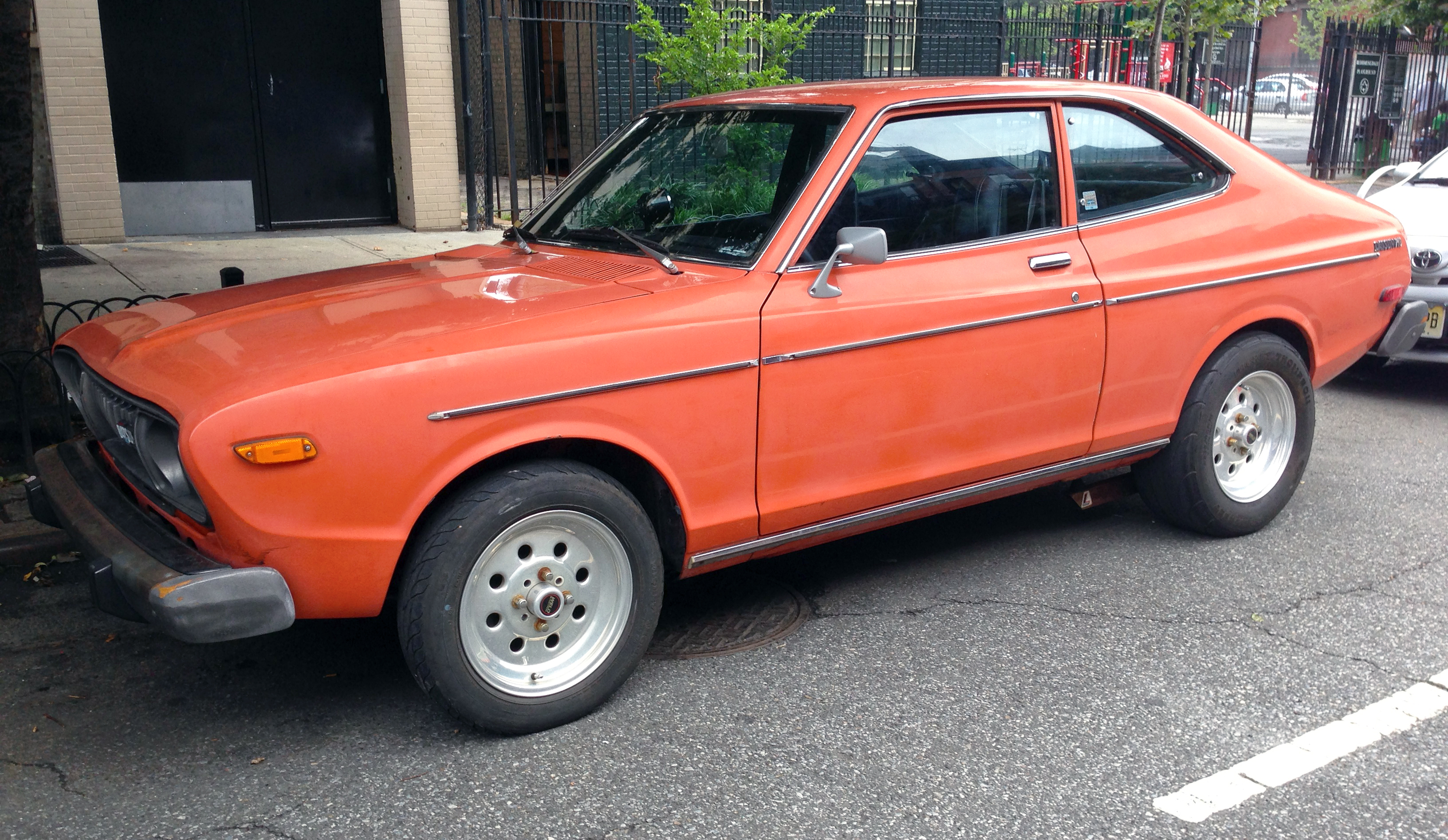 1970s Datsun 710 two-door sedan, US version. Sadly rather heavily modified with chunky wheels, but still a good spotting.